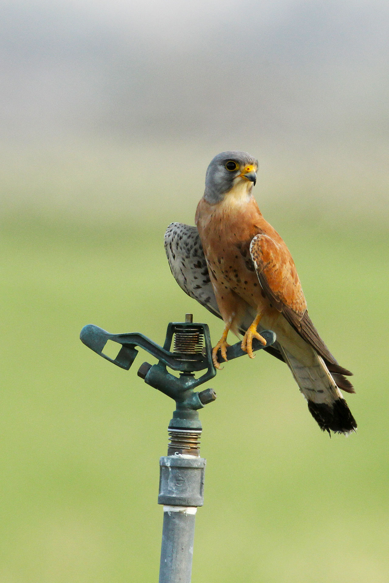 Common Kestrel